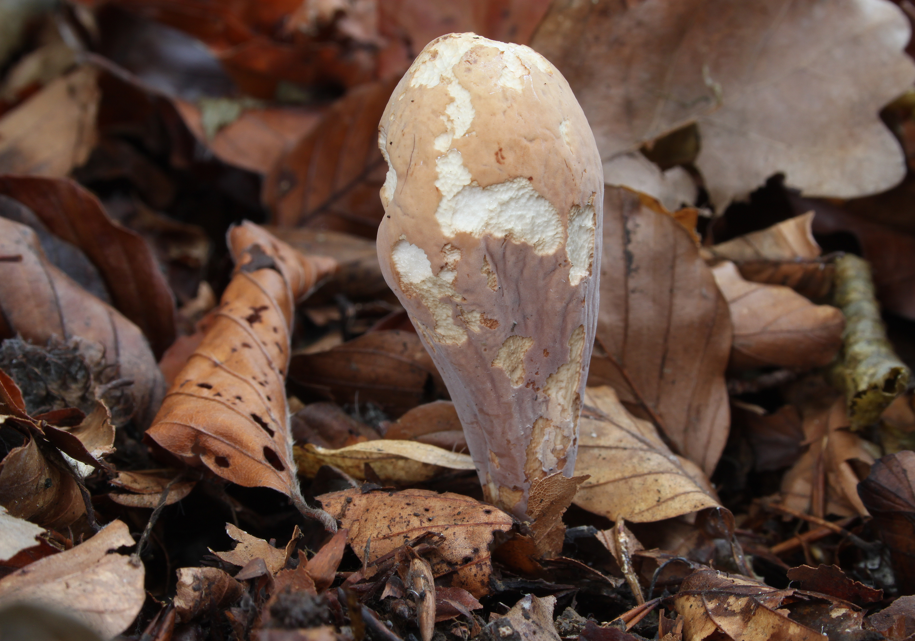 Clavariadelphus pistillaris, Family: Gomphaceae, Location: Germany, Ringingen